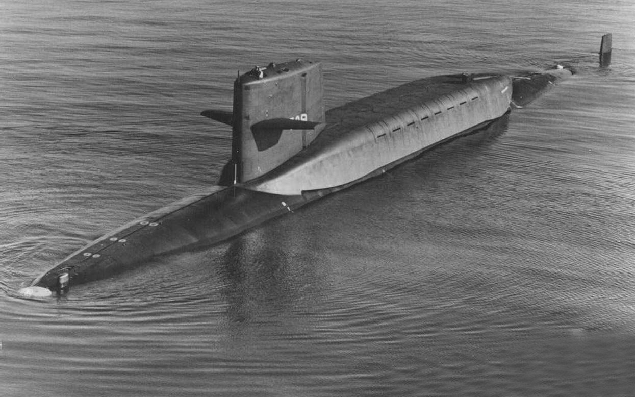 The U.S. Navy ballistic missile submarine USS Patrick Henry (SSBN-599) on 22 July 1960.